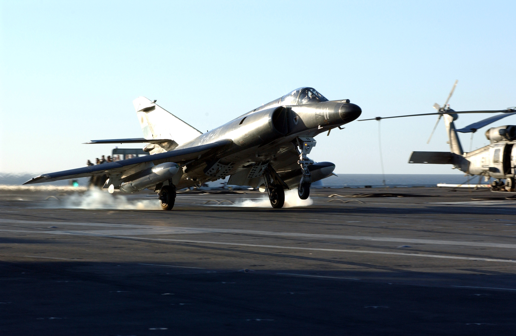 South Pacific (sic) Ocean (June 17, 2004) – An Argentine Navy Dassault Super Etendard jet aircraft comes in for a “touch and go” landing on the flight deck of the Nimitz-class aircraft carrier USS Ronald Reagan (CVN 76). The Super Etendard is a carrier-based single-seat strike fighter first introduced into service in 1978. It is armed with two 30mm guns and can hold a variety of air-to-air weapons and air-to-ground munitions. Reagan is currently circumnavigating South America to her new homeport of San Diego, Calif. U.S. Navy photo by Photographer's Mate 3rd Class Angel G. Hilbrands (RELEASED)